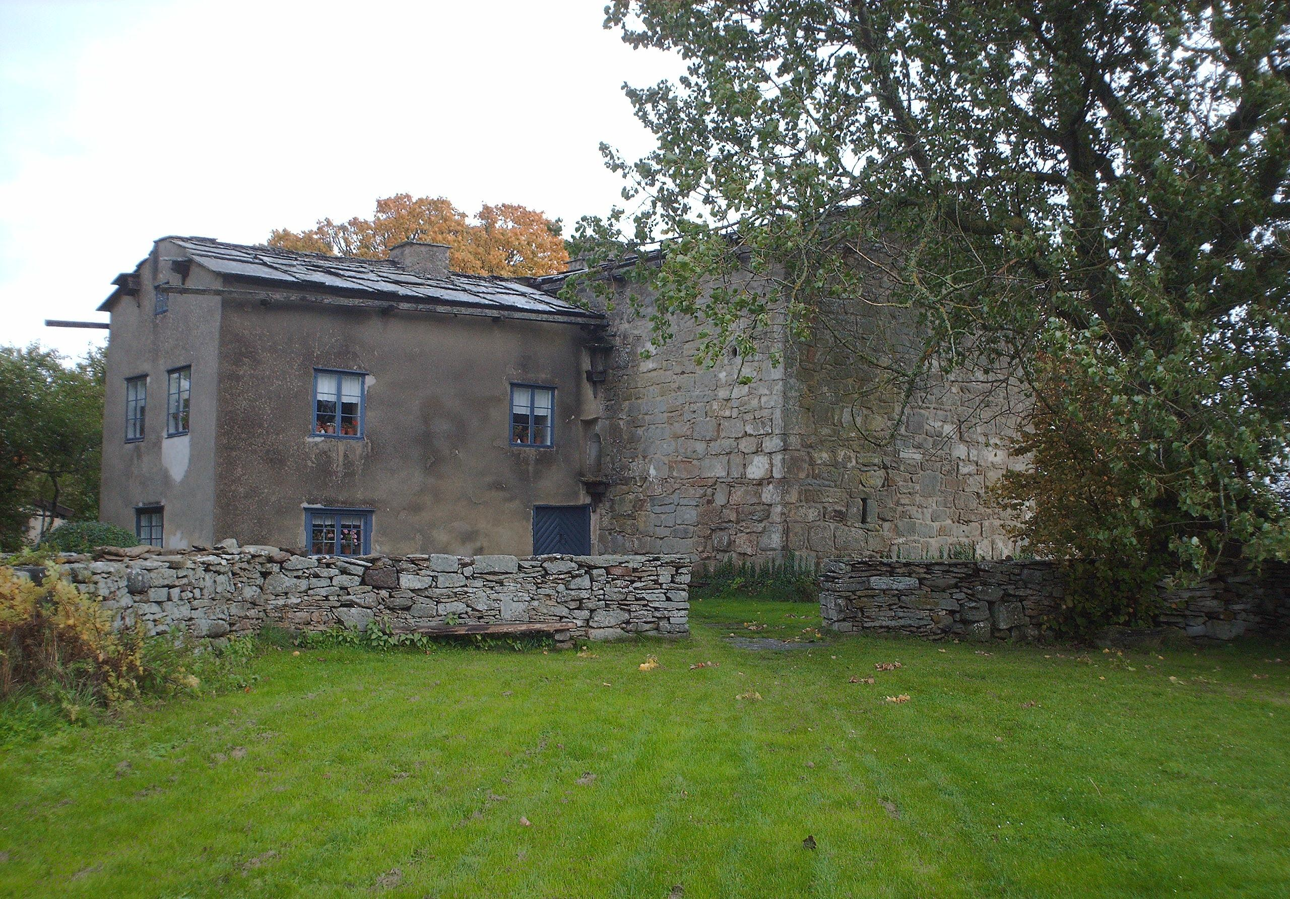 Kattlunds, Gotland, Sweden